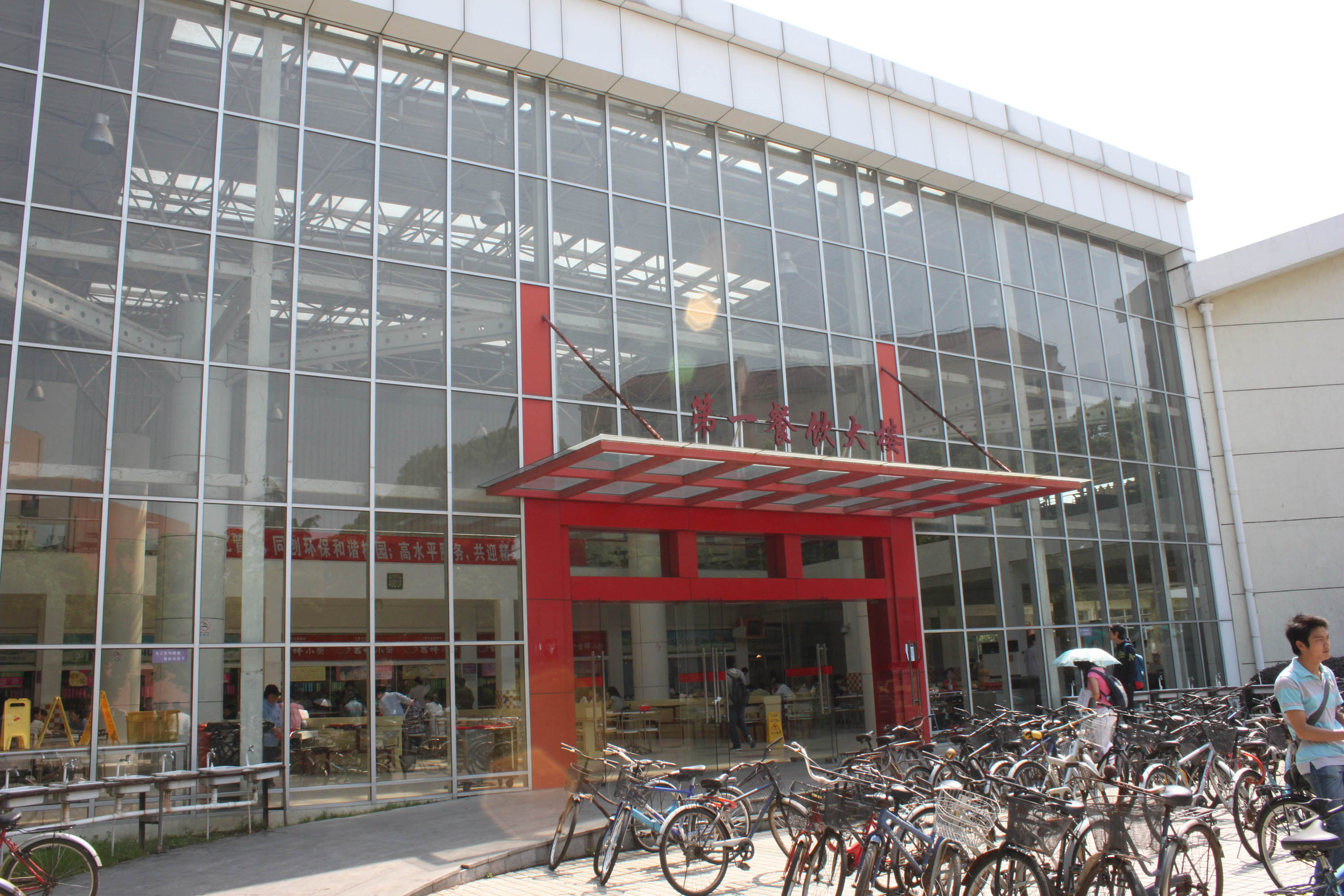 SJTU 1st Cafeteria